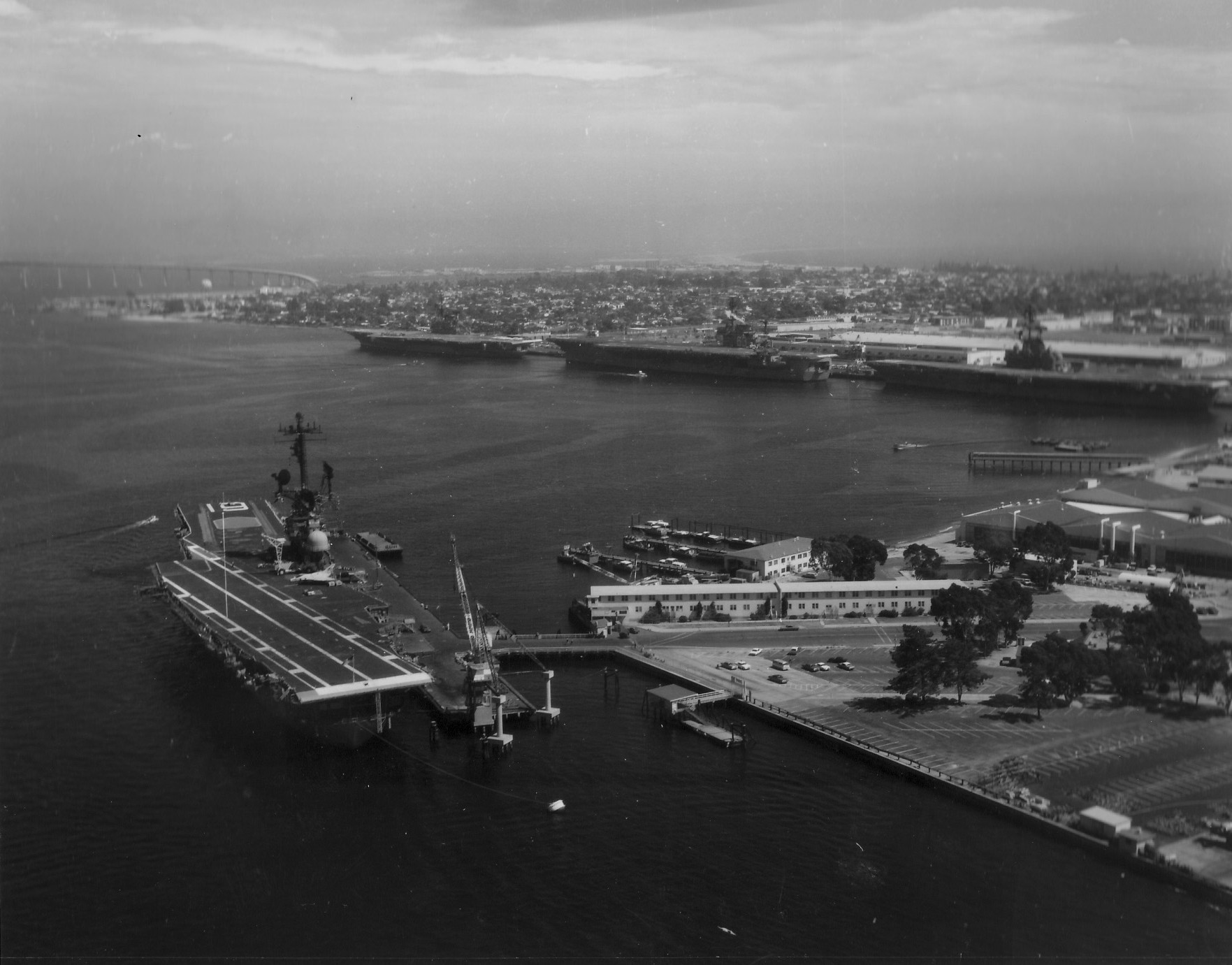 The U.S. Navy aircraft carrier USS Hancock (CVA-19) moored alongside Pier J at the Naval Air Station North Island, California (USA), on 18 July 1970. The carriers USS Midway (CVA-41), USS Kitty Hawk (CVA-63), and USS Ticonderoga (CVS-14) (left to right) are tied up at the quay wall.